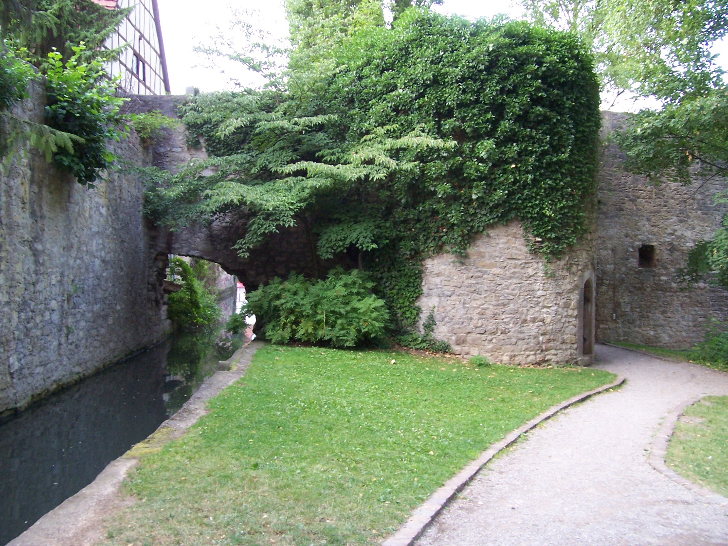 remains of the town-wall with "Hungerturm" (tower) at the "Mühlkanal" (channel) in Tauberbischofsheim